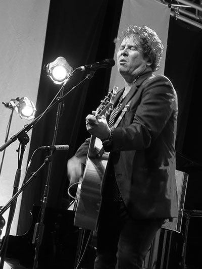 Grant-Lee Phillips at Aarhus Festival 2015 (Denmark)